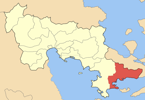 Locator map of Ermionis municipality (Δήμος Ερμιόνης) at Argolida perfecture, Greece.